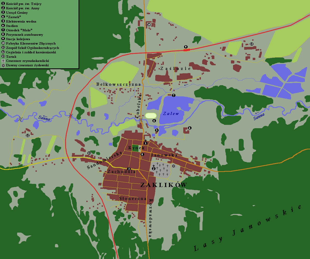 Map of town Zaklikow.